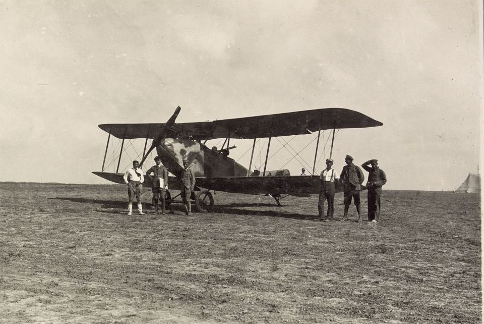 German aeroplane at Huj, 1917